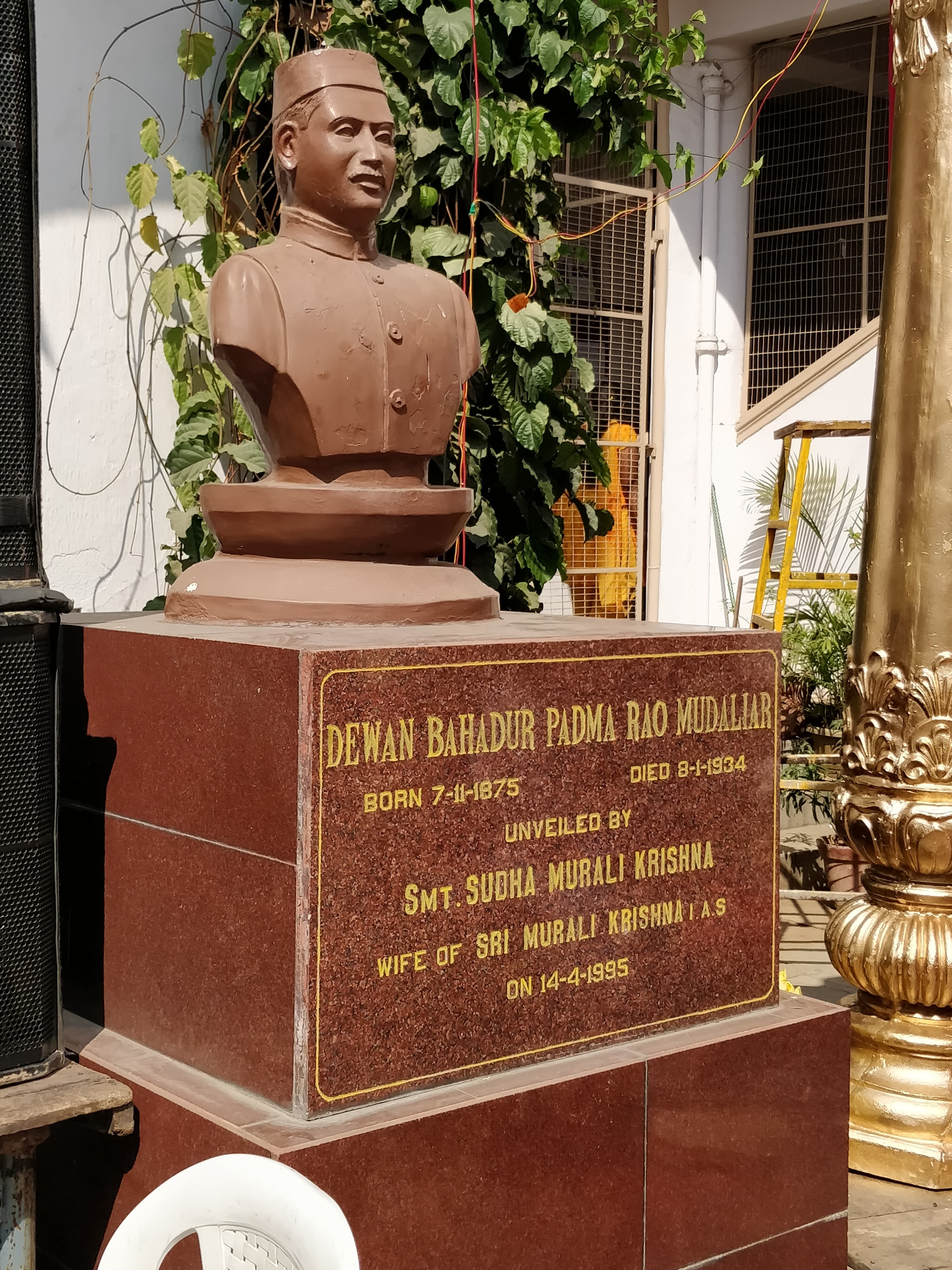 A statue of Dewan Bahadur Padma Rao Mudaliar, after whom the area is named.